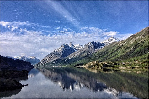 View of Rakwa Tso, Chamdo, Tibet. 中文（中国大陆）: 西藏然乌湖景观。